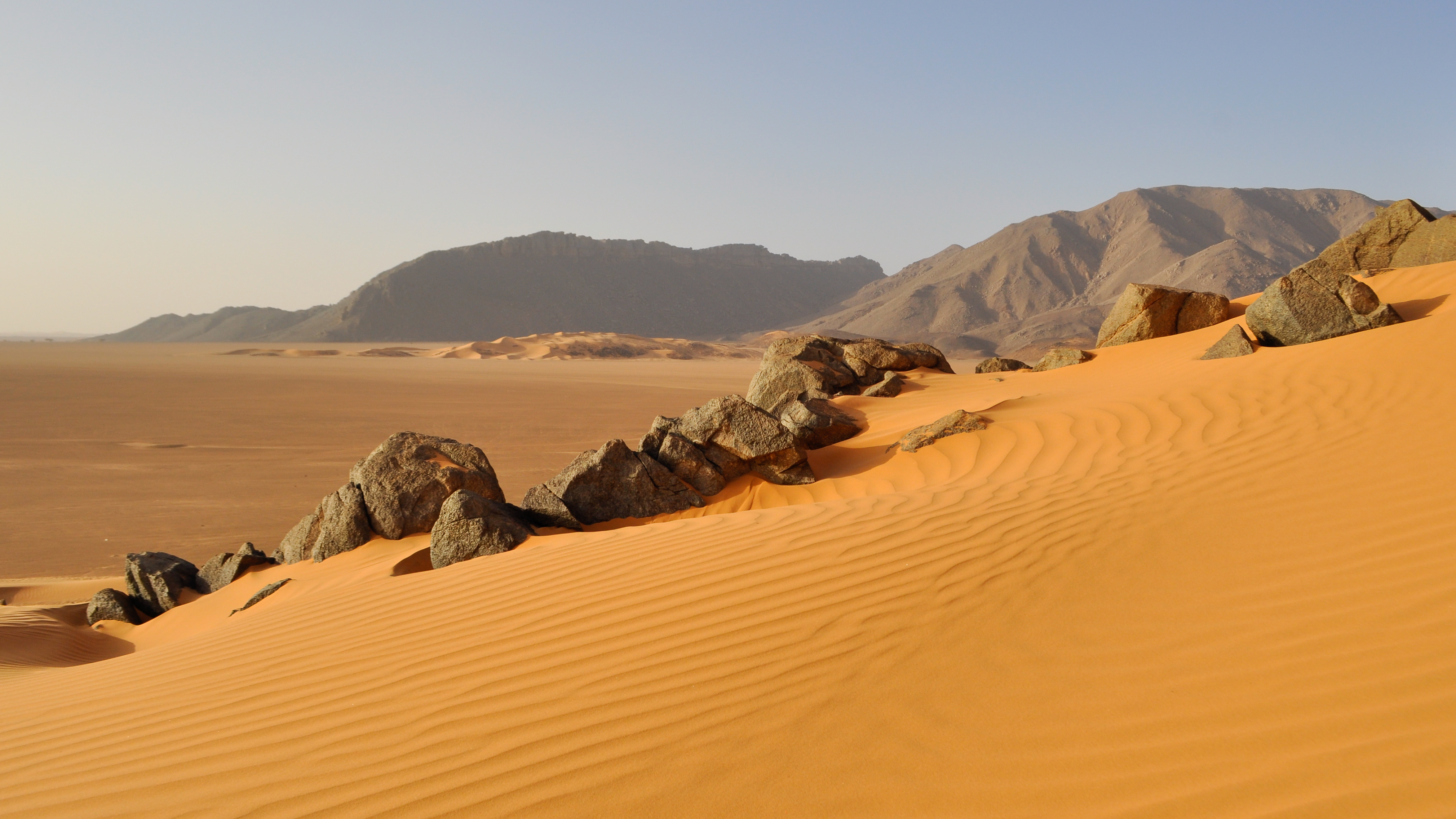 Sand Dune at the Cultural Park of Ahaggar, southern Algeria.